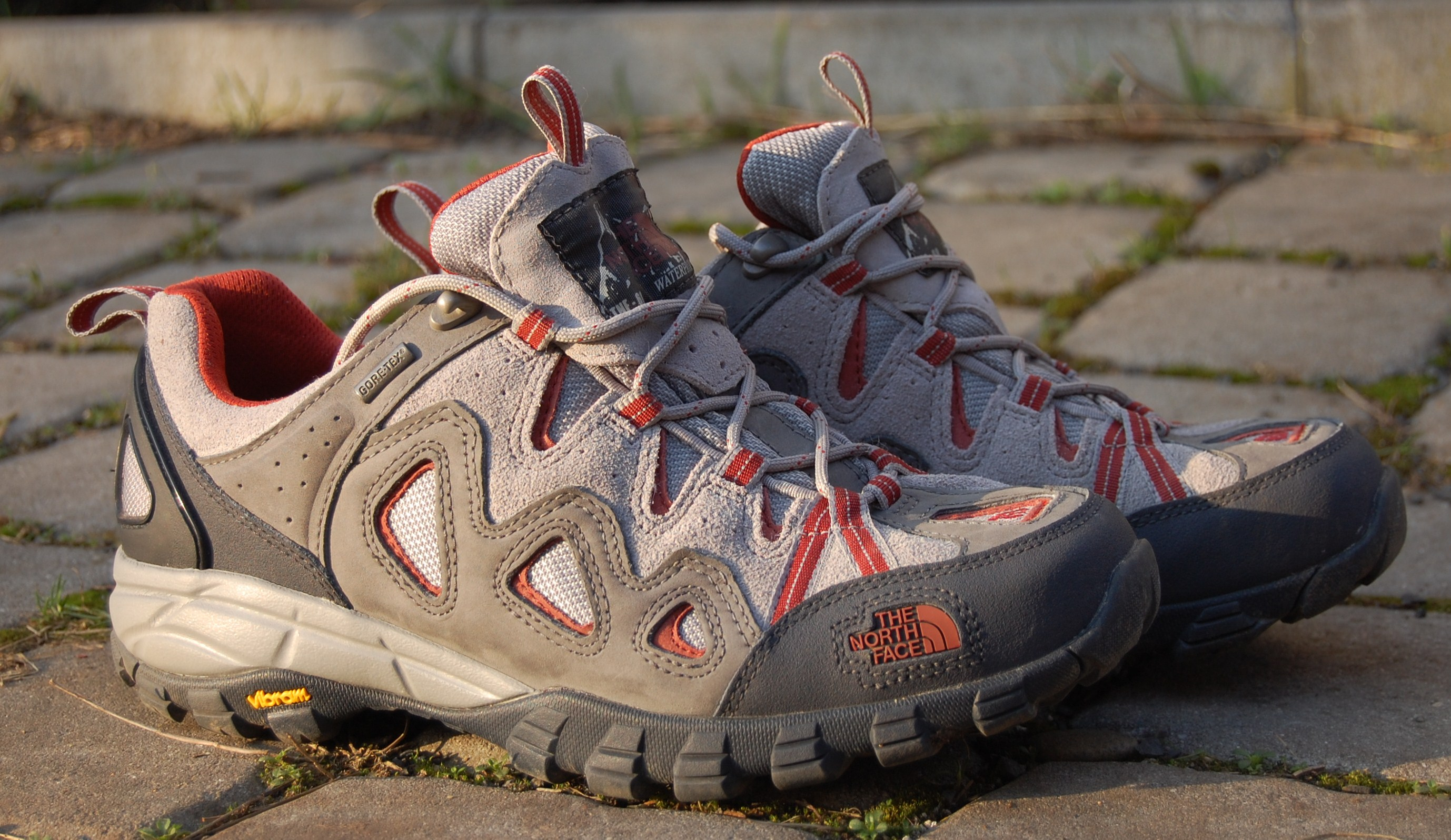 Outdoor gear The North Face M Vindicator Gtx